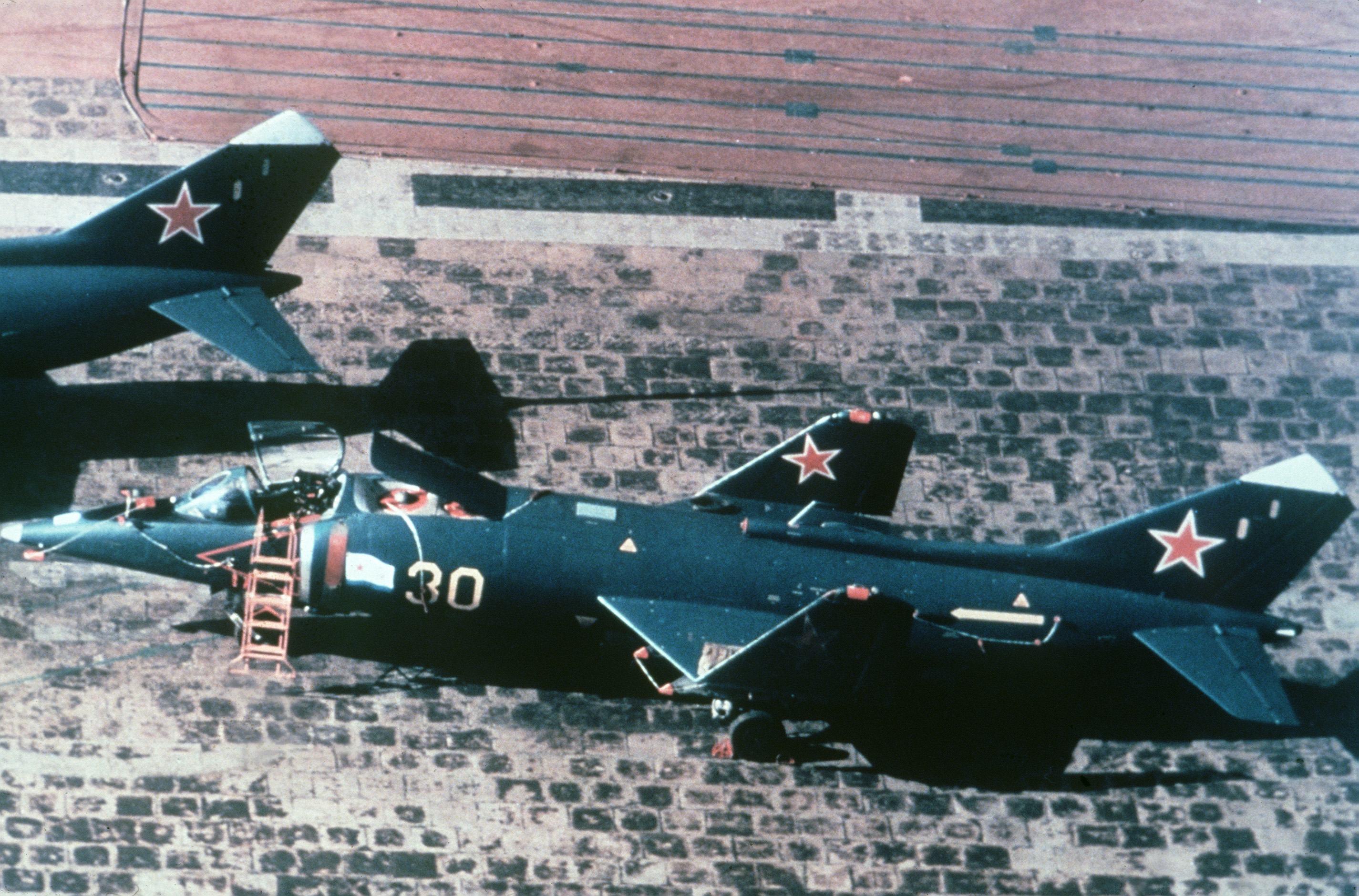 A Yak-36 Forger aircraft parked aboard the flight deck of the Soviet aircraft carrier KIEV (CVHG).